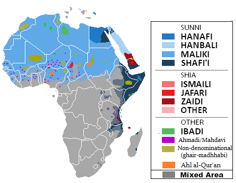 Self-reported affinity in Africa